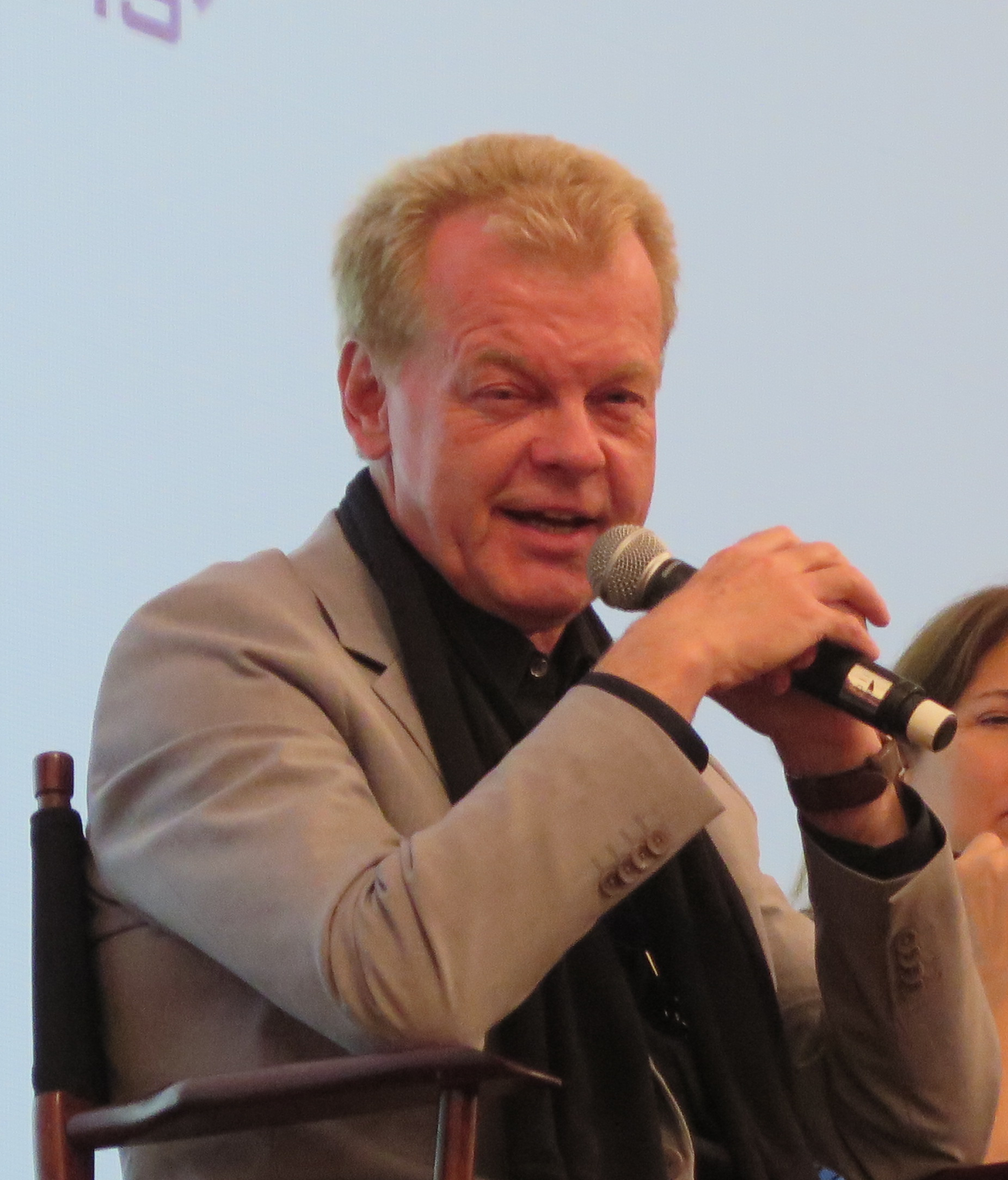 Writes and director David S. Ward at the Annapolis Film Festival